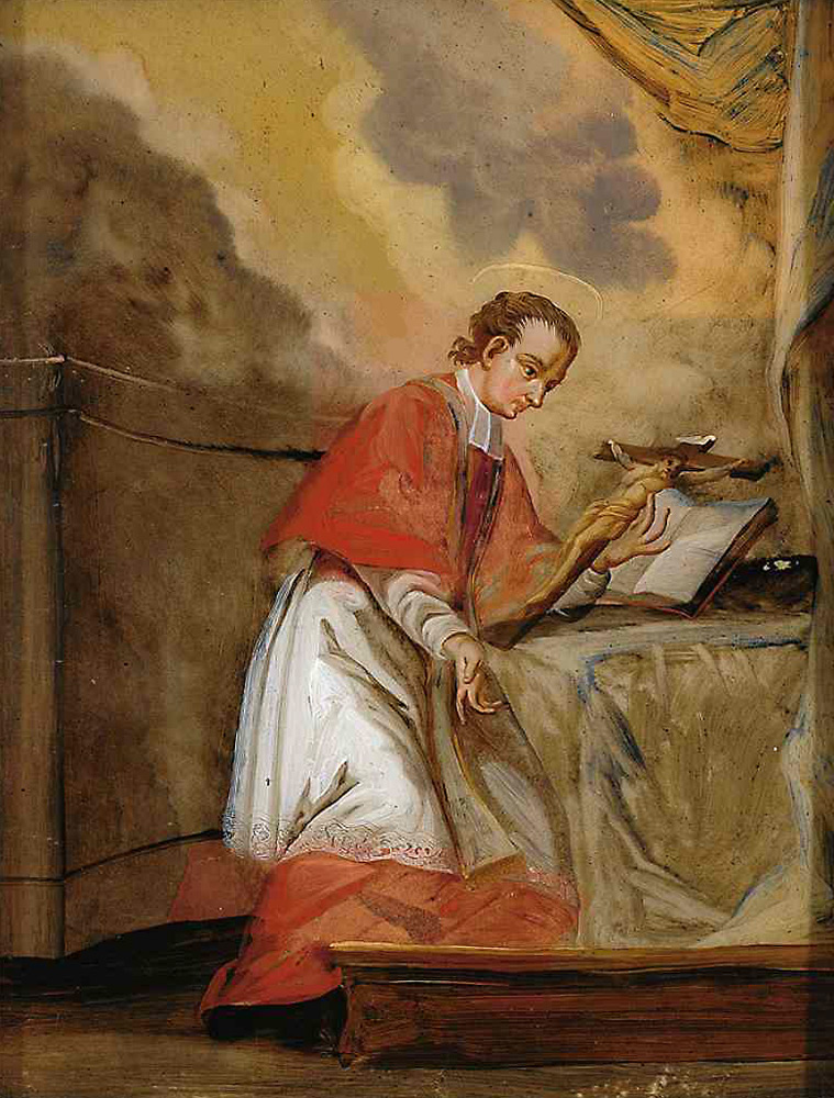 The sacred Agritsy, the first bishop Trier